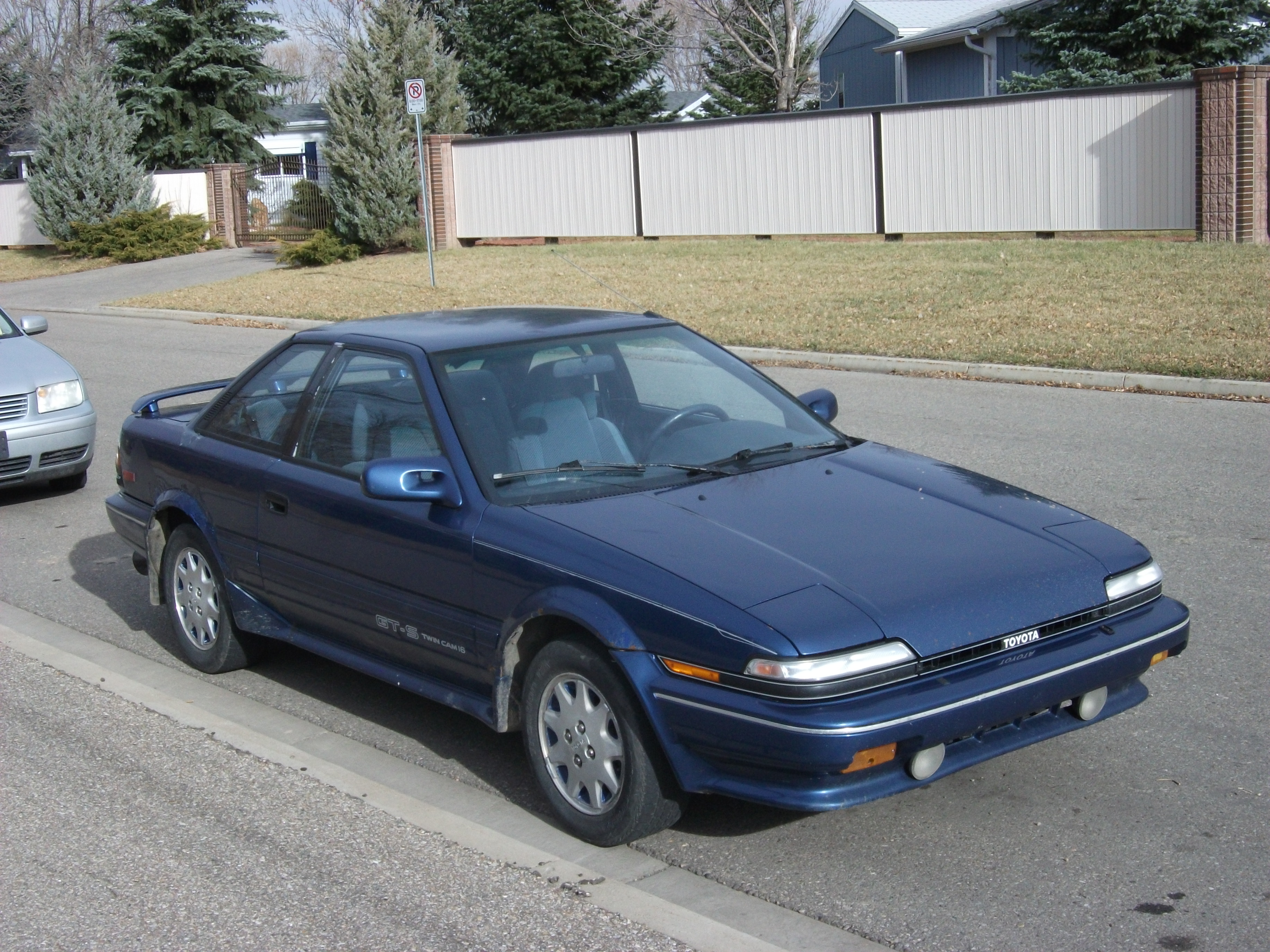 A front wheel drive Toyota Corolla GTS with a 1.6L twin cam four cylinder engine.